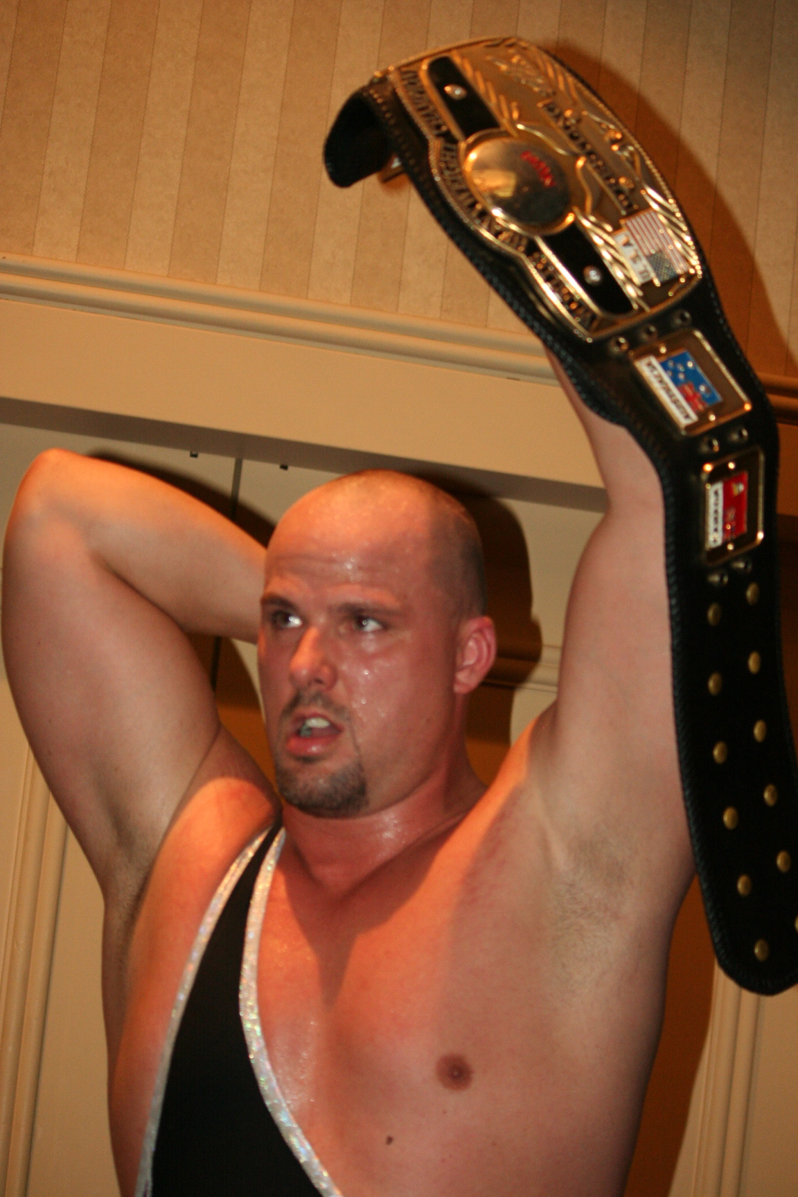 Professional wrestler Adam Pearce after winning the NWA World Heavyweight Championship for the third time on March 14, 2010.